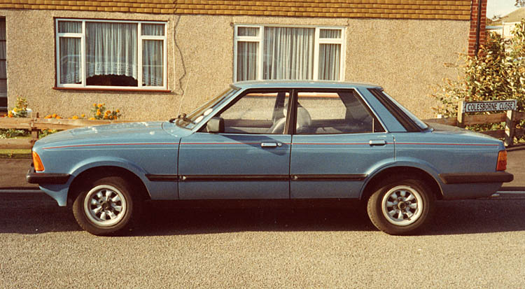 Ford Cortina Mk 5, picture taken in England in 1982.